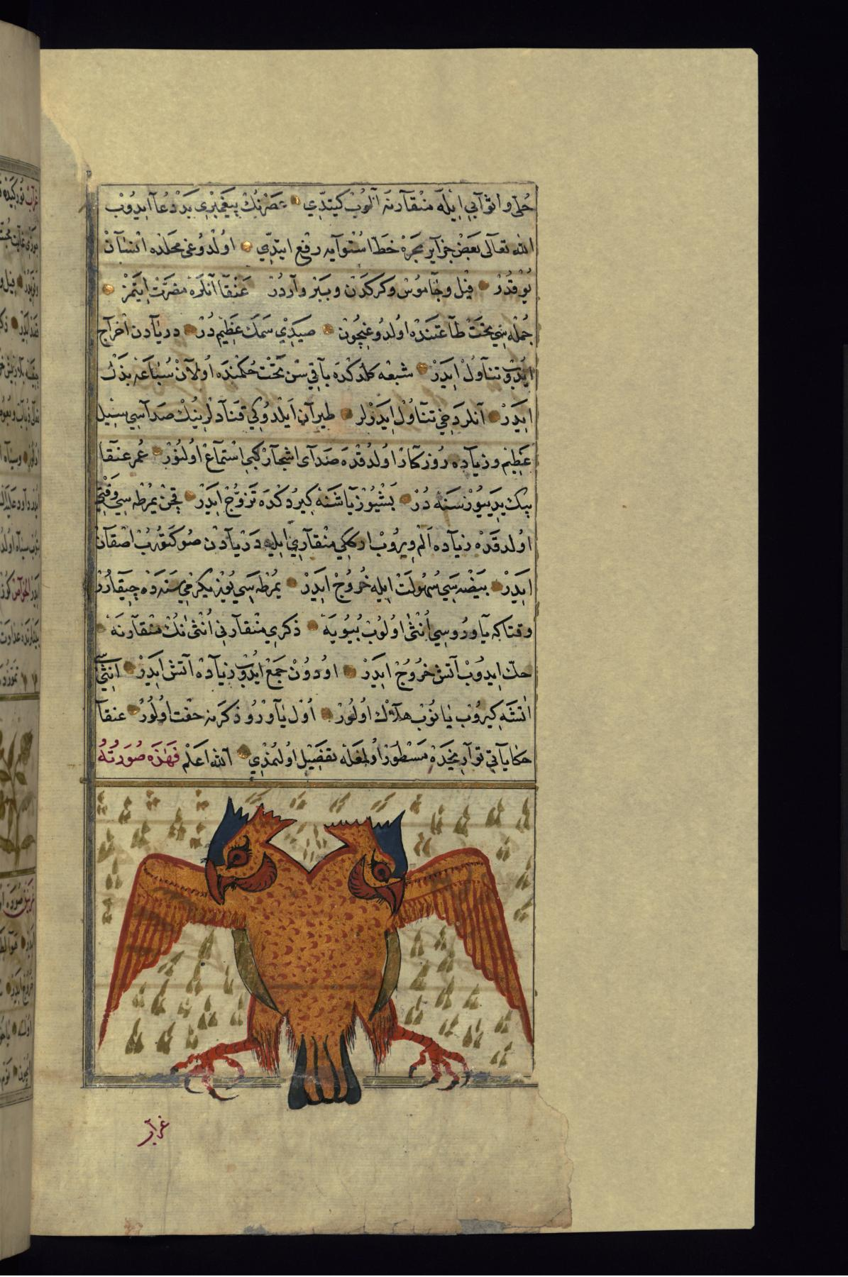 This illustration from Walters manuscript W.659 depicts a fabulous (legendary) bird such as a griffon or simurgh ('anqa).